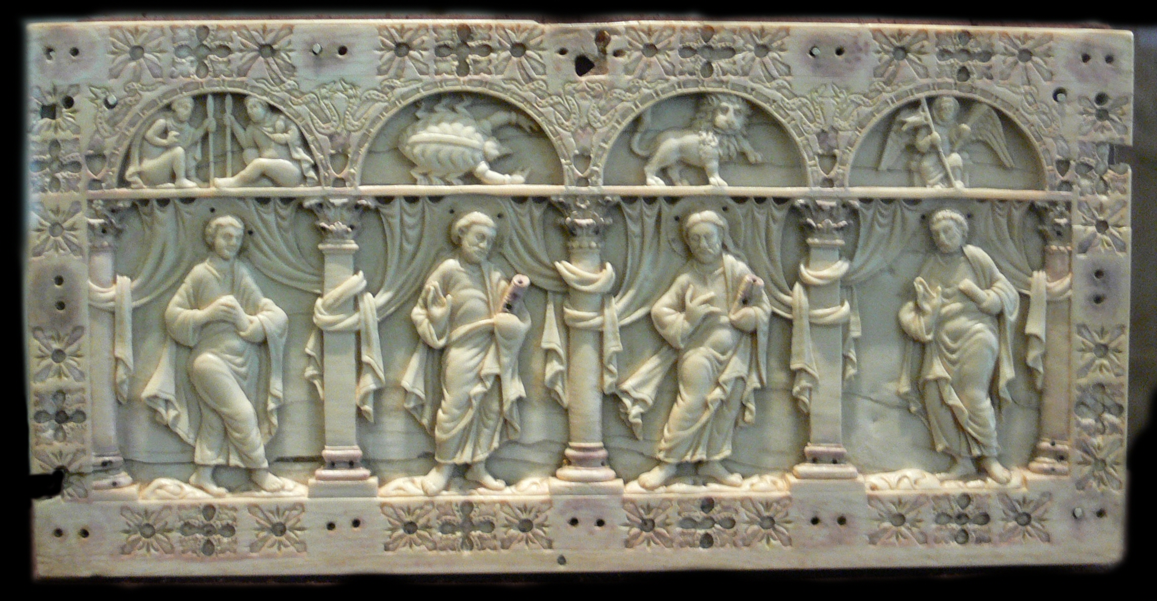 Christ and Apostles; three sides of an ivory box; West Francia, c. 870 AD; from the Monastery of St. Stephen, Bamberg Bayerisches Nationalmuseum München, Inv. MA 174–176, erworben 1860 mit der Sammlung Martin von Reider, Bamberg